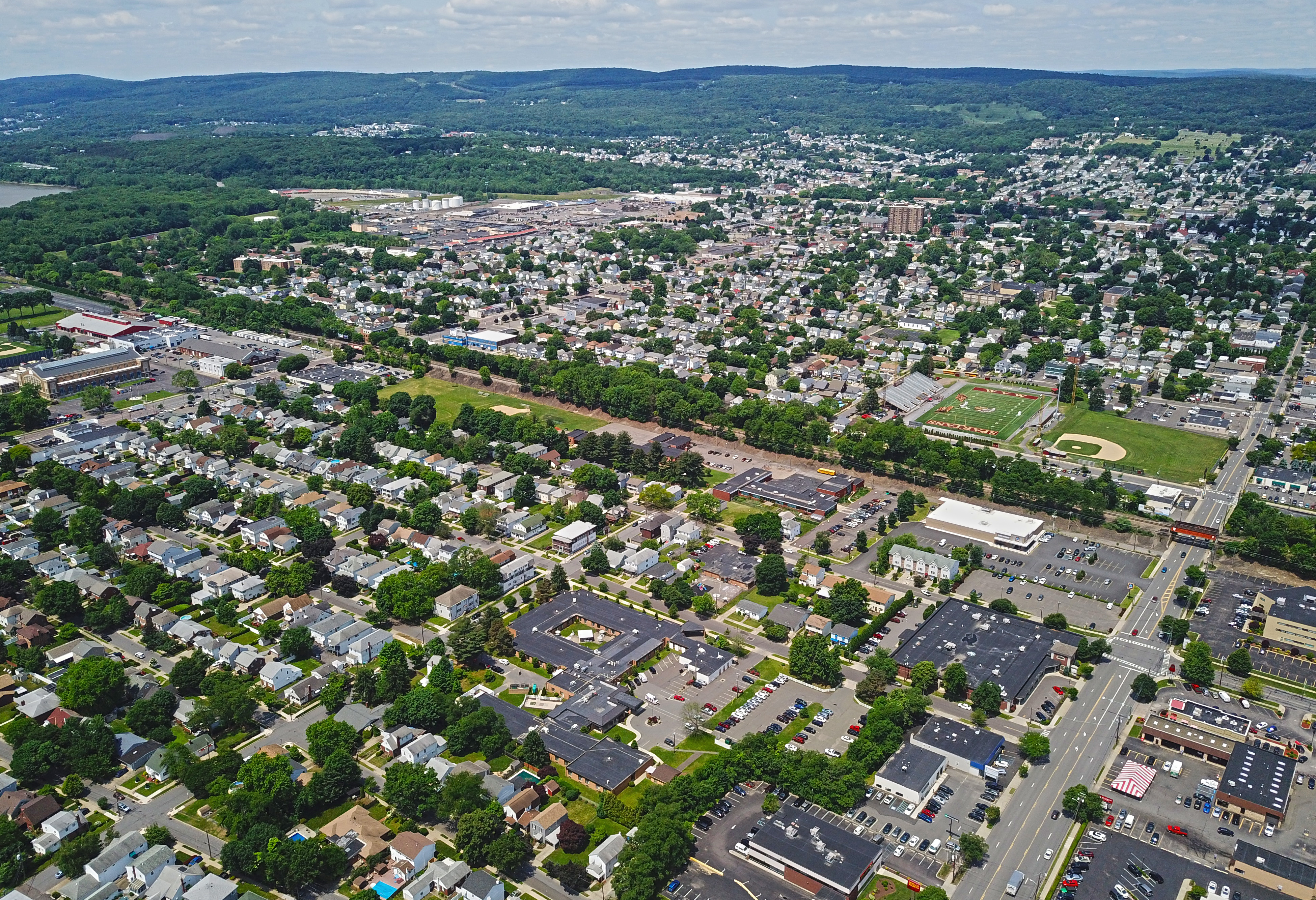 DCIM\100MEDIA\DJI_0016.JPG